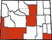 Updated map of Wyoming Swine Flu Outbreak